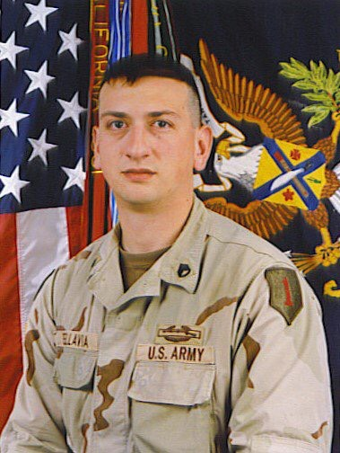 Staff Sgt. David G. Bellavia, pictured here in an image from the US Army, will receive the Medal of Honor during a ceremony from President Trump on June 25. (Army News Service)